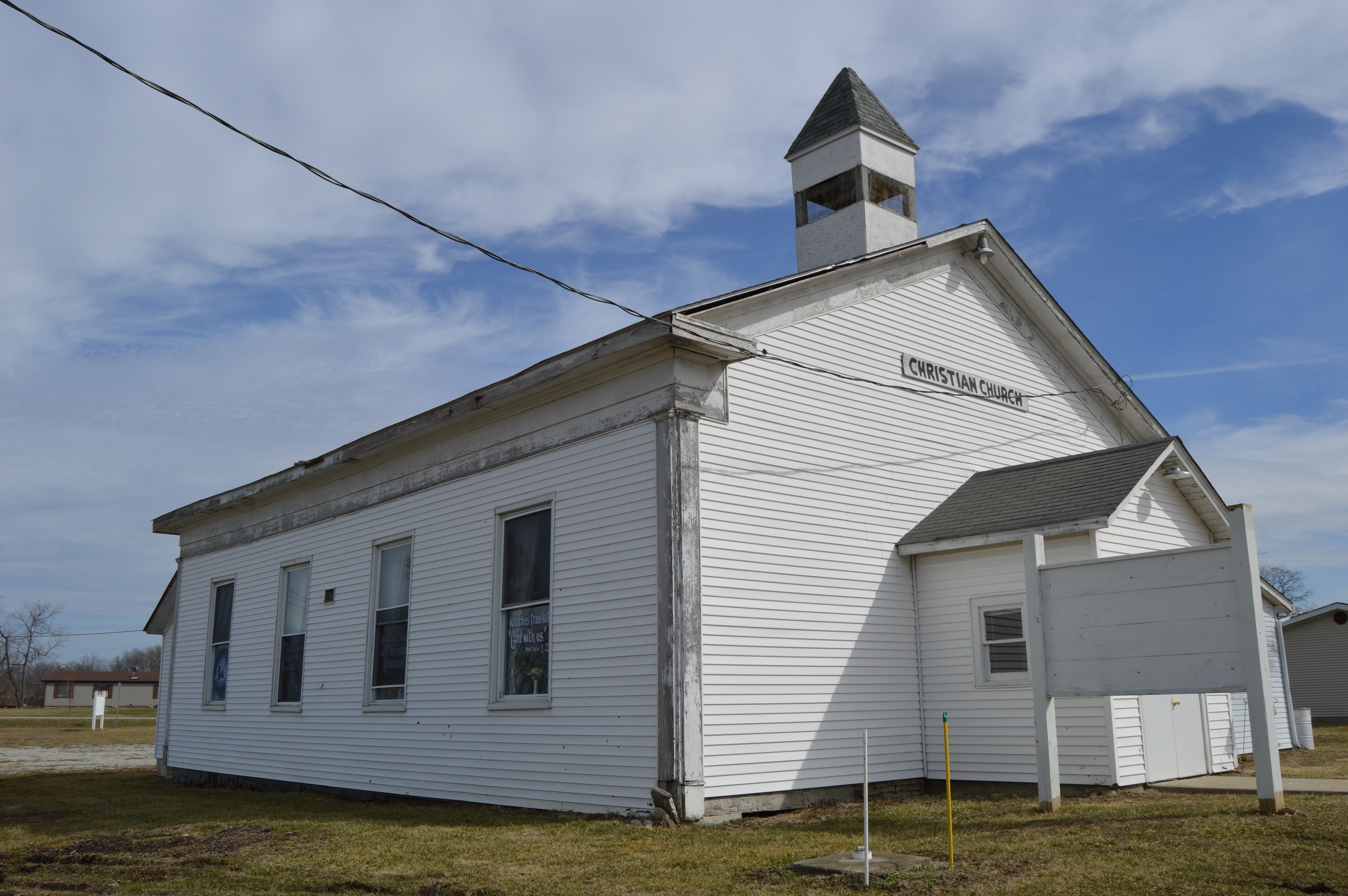 Front and western side of the Andersonville Christian Church, located at 27081 State Road 244 in Andersonville, Indiana, United States. It was built in 1850.